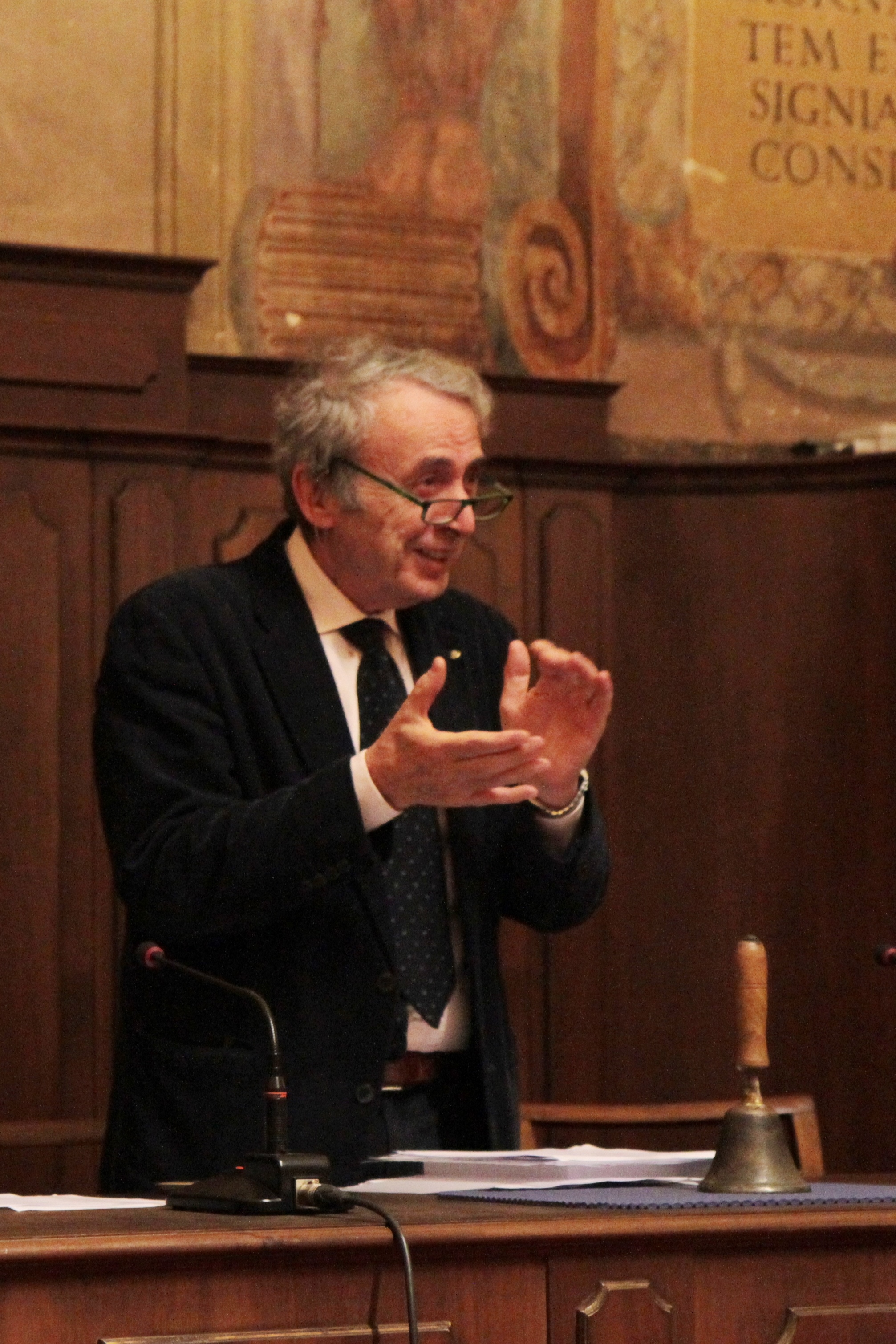 Giuseppe Armocida, as President of the Italian Society for the History of Medicine, in November 2015